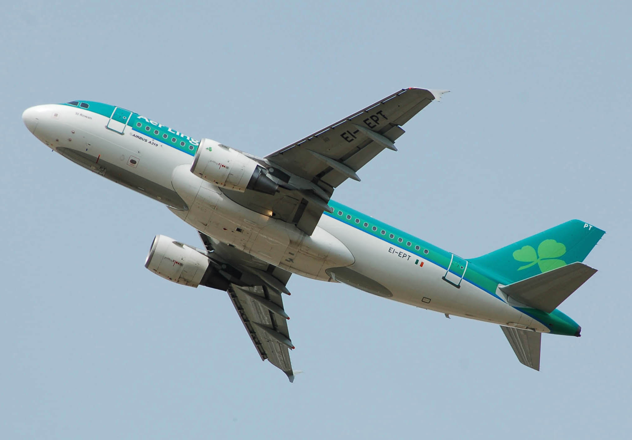 Aer Lingus Airbus A319-100 (EI-EPT) departs London Heathrow Airport, England, on 2nd July 2014.